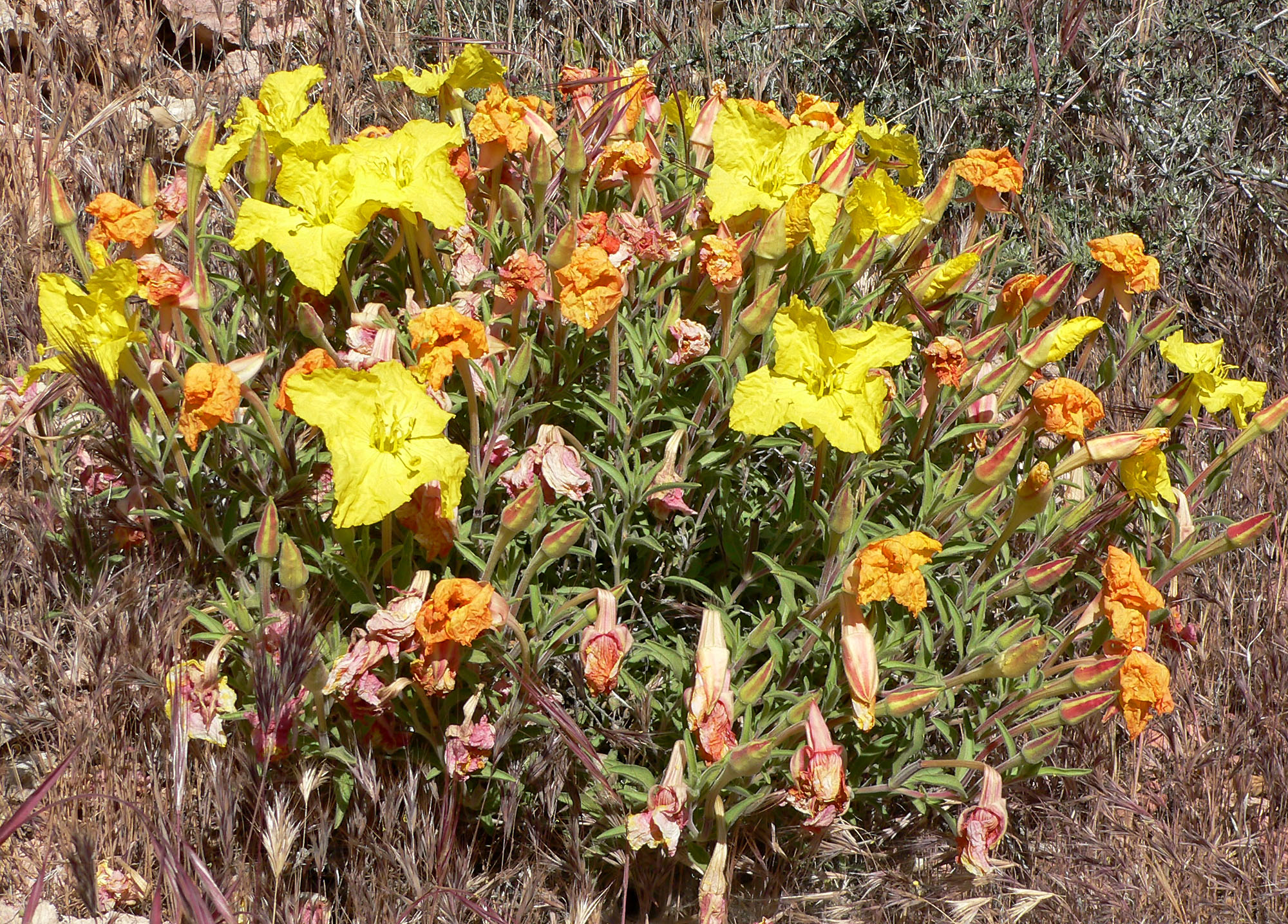 Photo of Calylophus lavandulifolius (lavenderleaf sundrops) in Calico Basin west of Las Vegas, Nevada